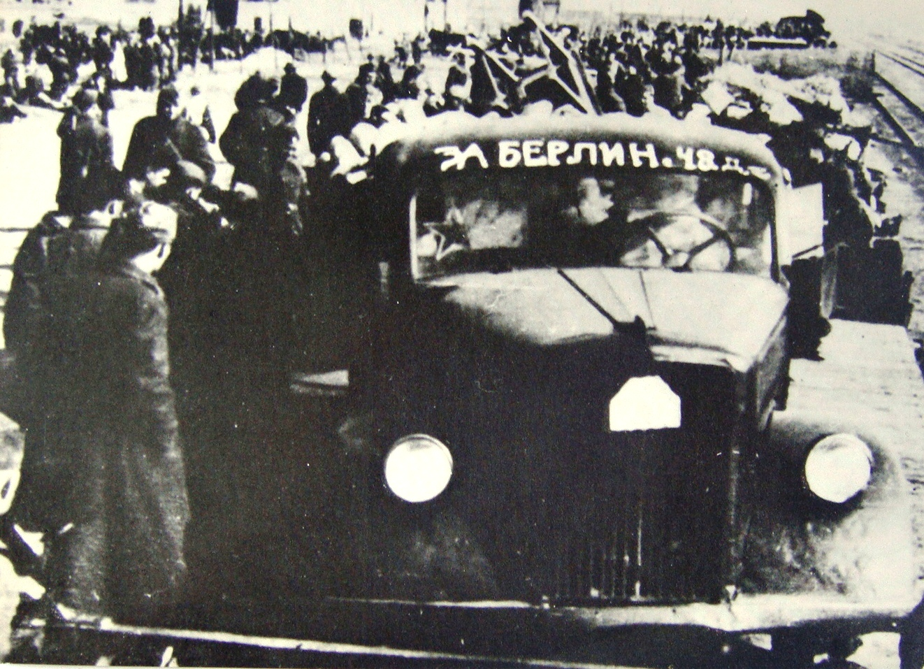 XV Macedonian corps on the way to Sremski Front, 1945. This media file is produced by Wikipedian in Residence in Category:Wikipedian in Residence at DARM in 2016.